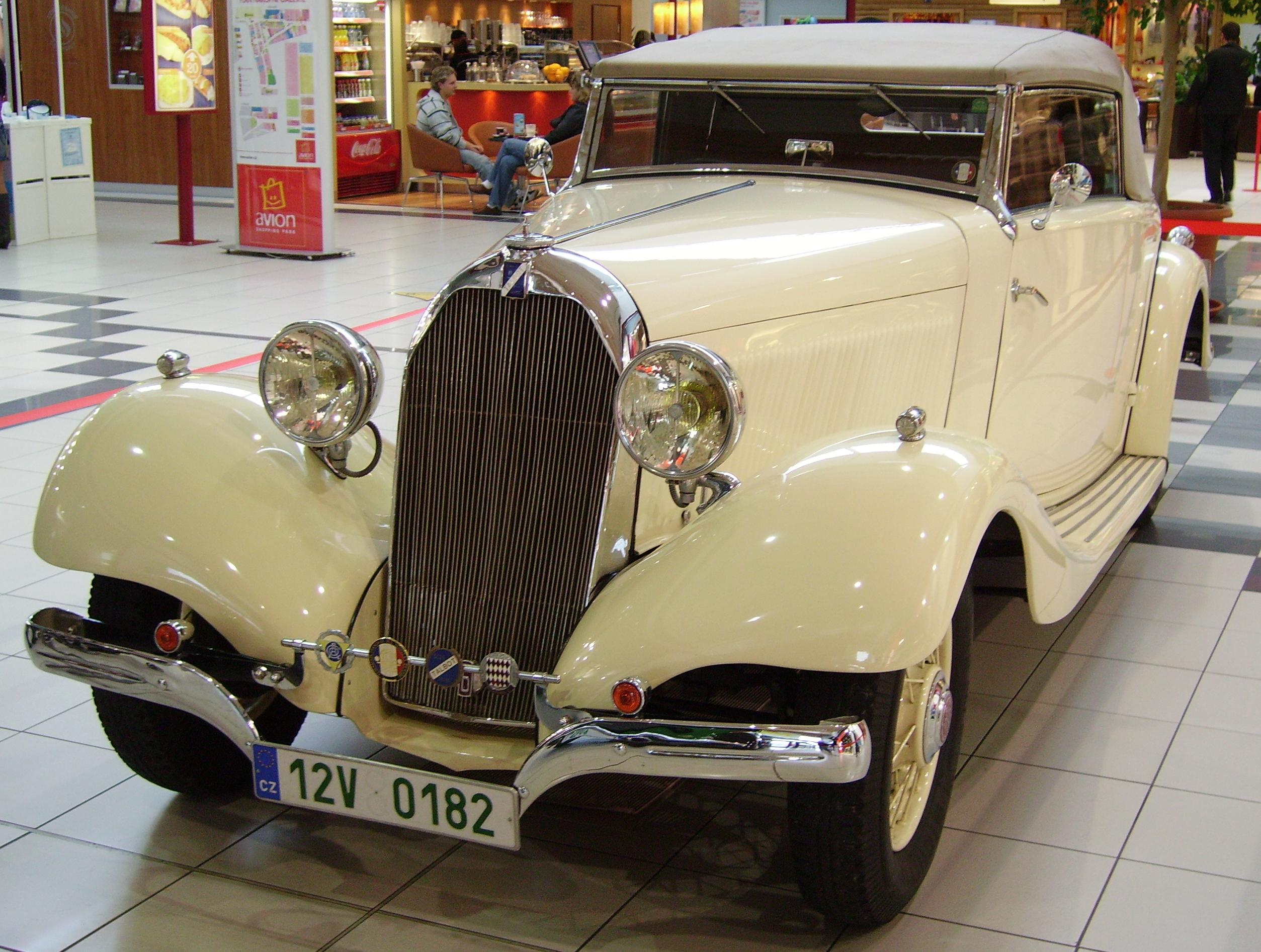 1935 Talbot-Lago T120 drophead coupé